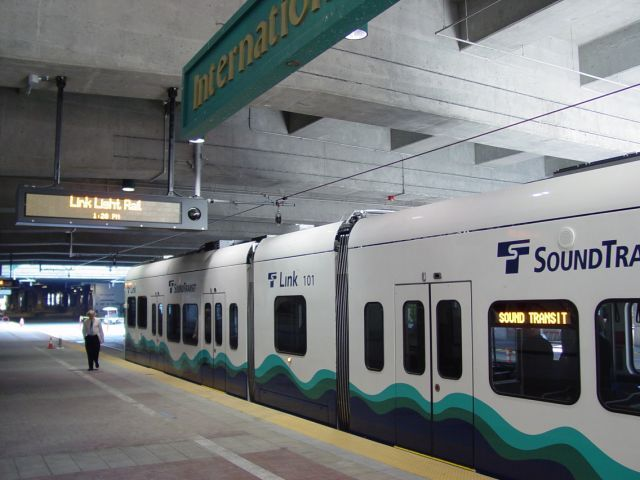 Light rail vehicle, East (northbound) platform, International District Station, Downtown Seattle Transit Tunnel, Seattle, WA, USA